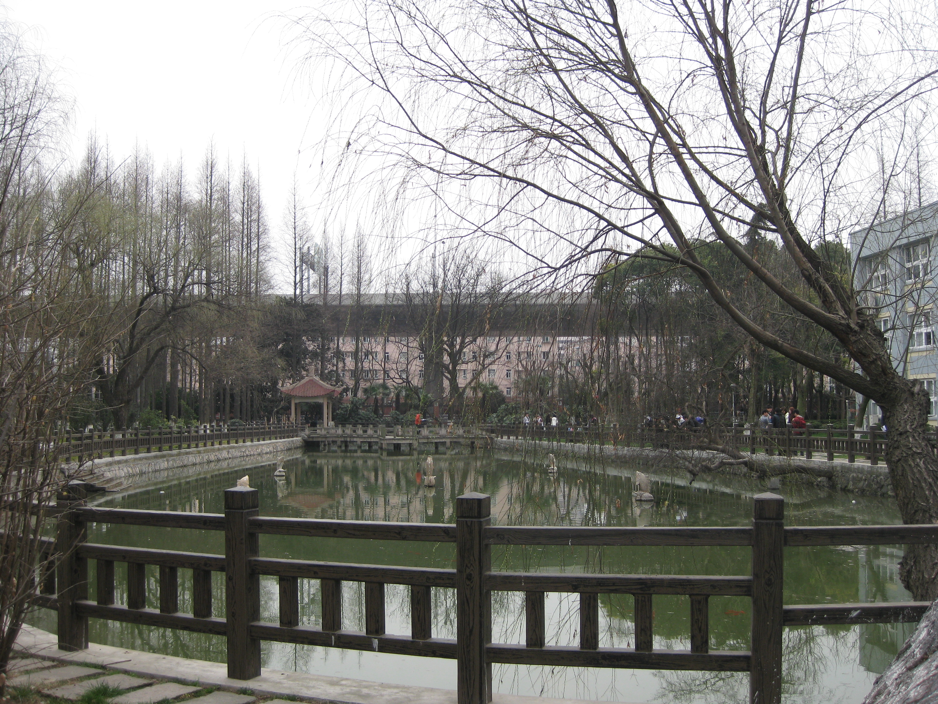 A picture of Zhongxing Lake.